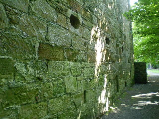 rear of Kinneil House, Bo'ness, Falkirk